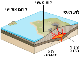 shield volcano - cross section, hebrew